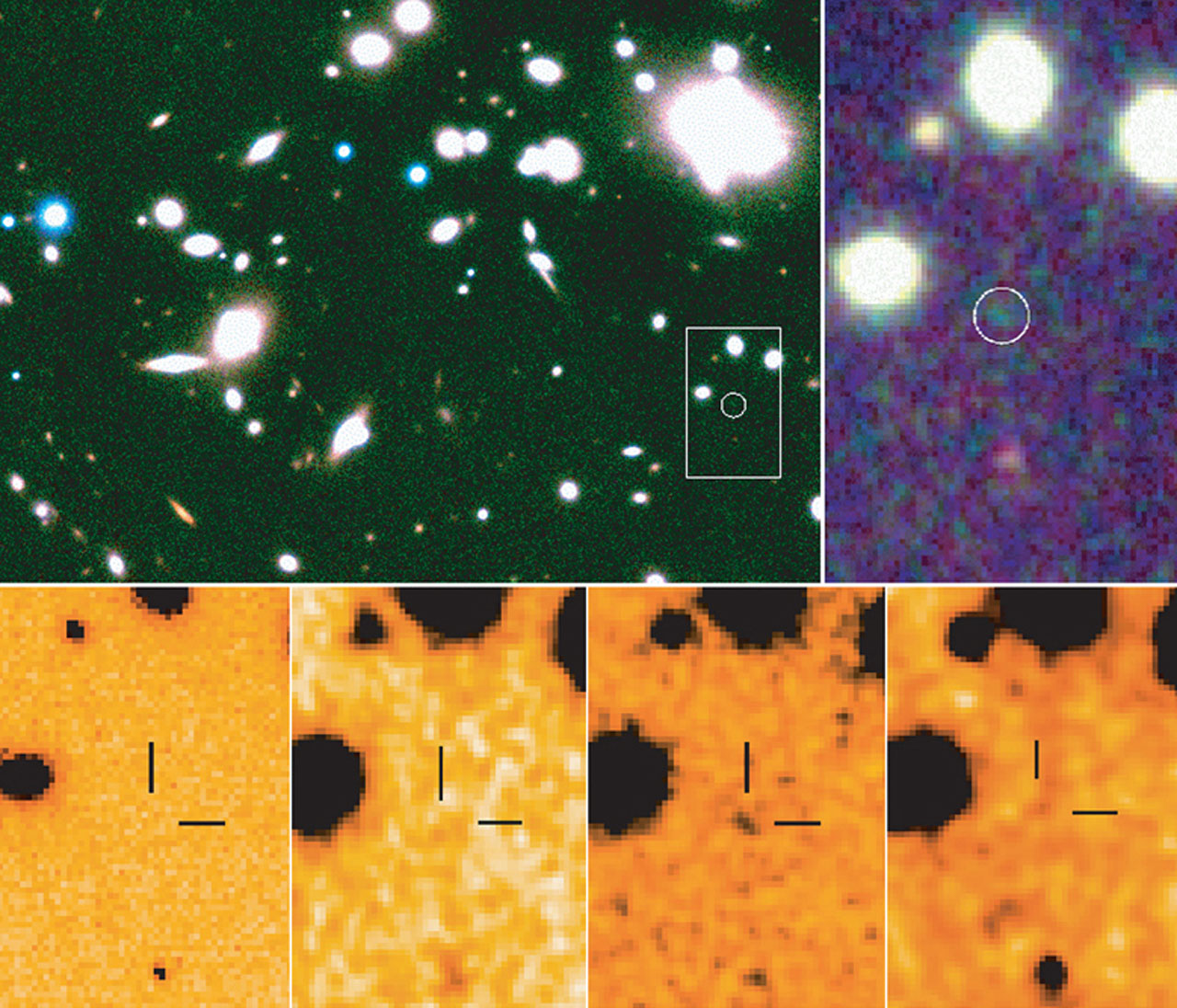 SAAC image in the near-infrared of the core of the lensing cluster Abell 1835 (upper) with the location of the galaxy Abell 1835 IR1916 (white circle). The thumbnail images at the bottom show the images of the remote galaxy in the visible R-band (HST-WFPC image) and in the J-, H-, and K-bands. The fact that the galaxy is not detected in the visible image but present in the others - and more so in the H-band - is an indication that this galaxy has a redshift around 10. Note: Since these results have been published several further investigations by several independent teams have been undertaken. A deep observation with the Gemini-North Near-Infrared Imager (NIRI) has not detected the source to fainter magnitude limits than in the ISAAC data. Also, a deep V-band image taken with FORS does not show the object to be present. The status of this object is hence currently unresolved.